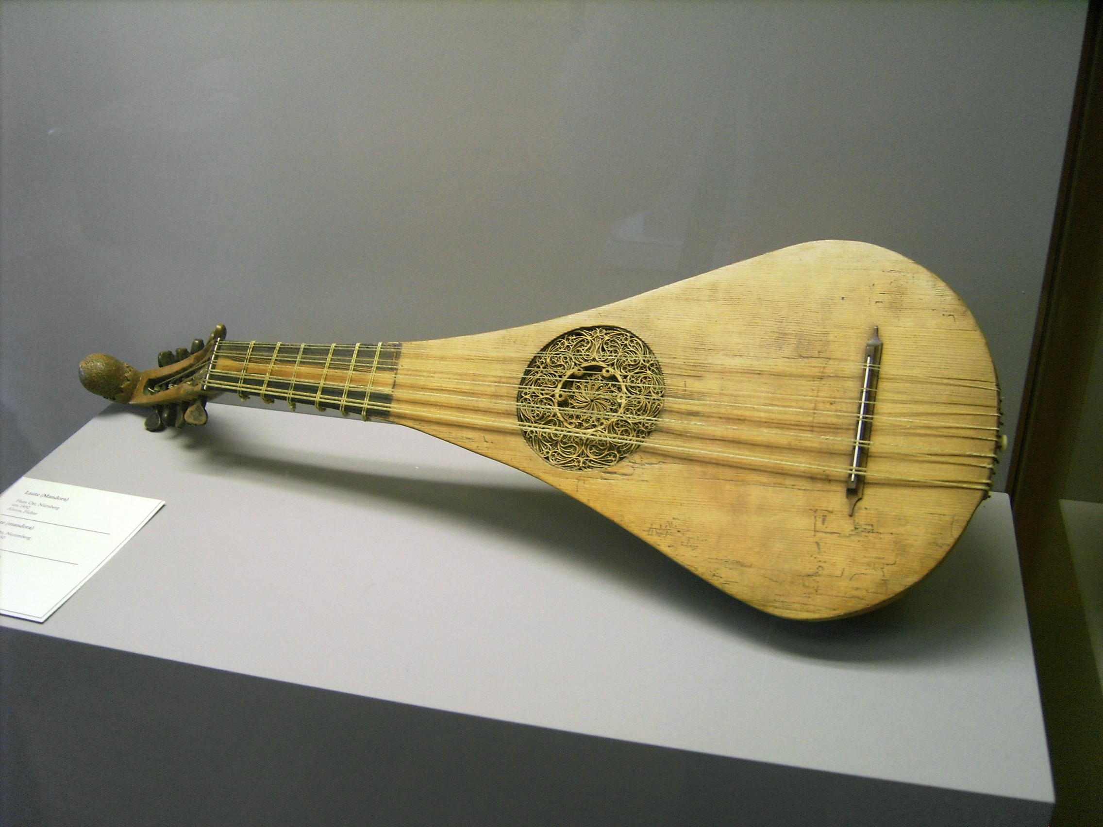 Gittern made in 1450 by Hans Oth in Nürnberg, exhibited at Wartburg Castle.[1] Its Body, neck and pegbox made from one piece of maple, belly spruce or fir. Rose made of several layers of parchment & wood.[2]